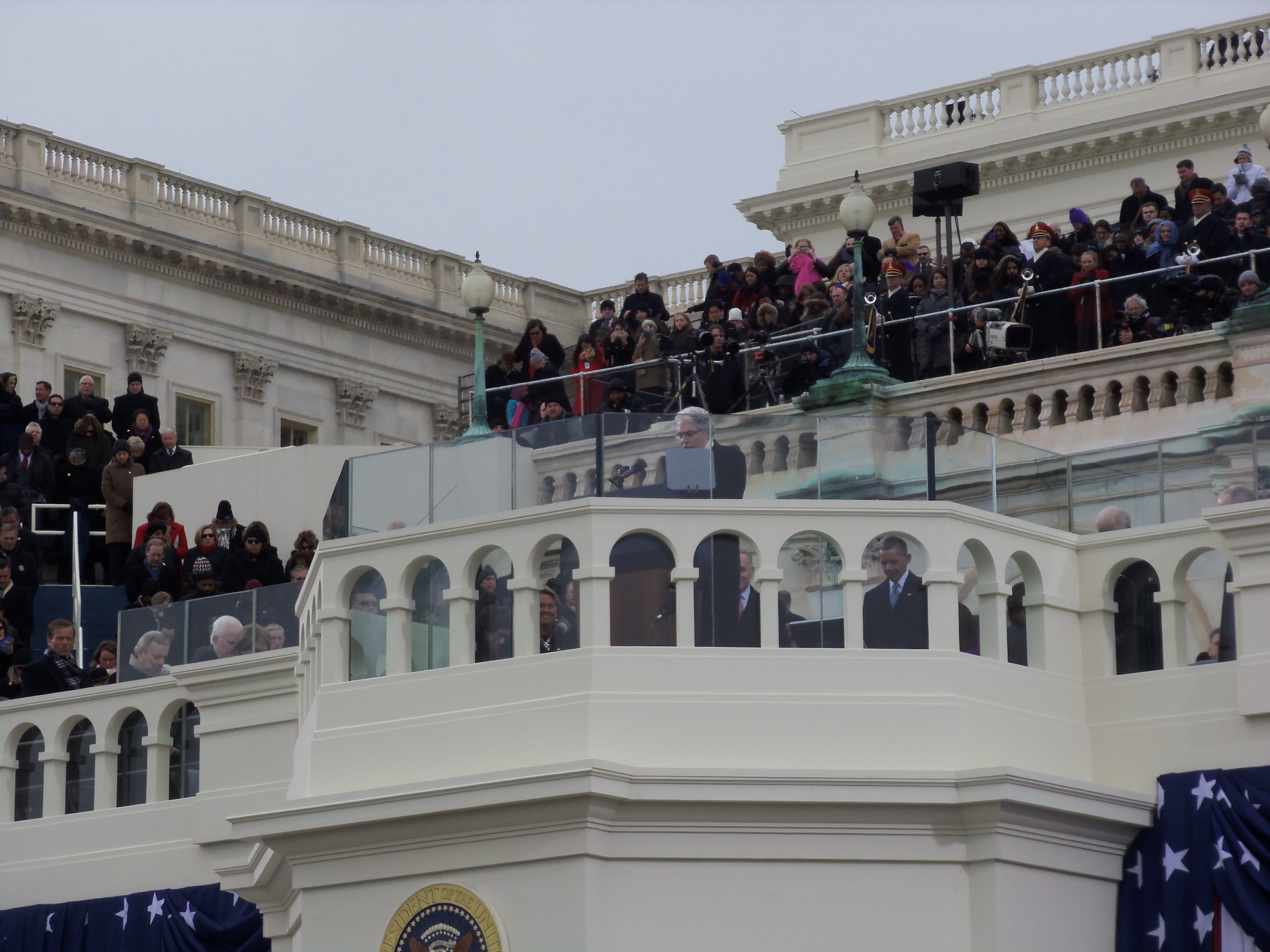 2013 Inauguration of President Barack Obama. View from the lower platform on the West Front of the United States Capitol. Rev. Dr. Luis Leon of St. John's Episcopal Church, Washington, DC, delivers the Benediction. President Obama can be seen in one of the arch's.